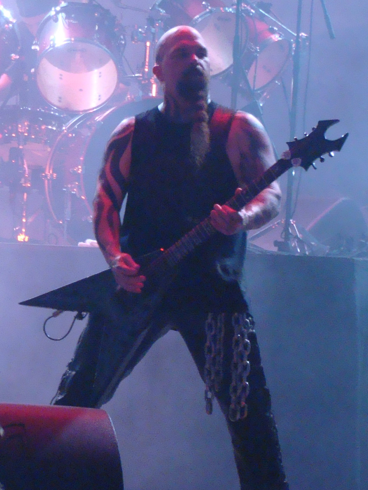 Slayer - Kerry King